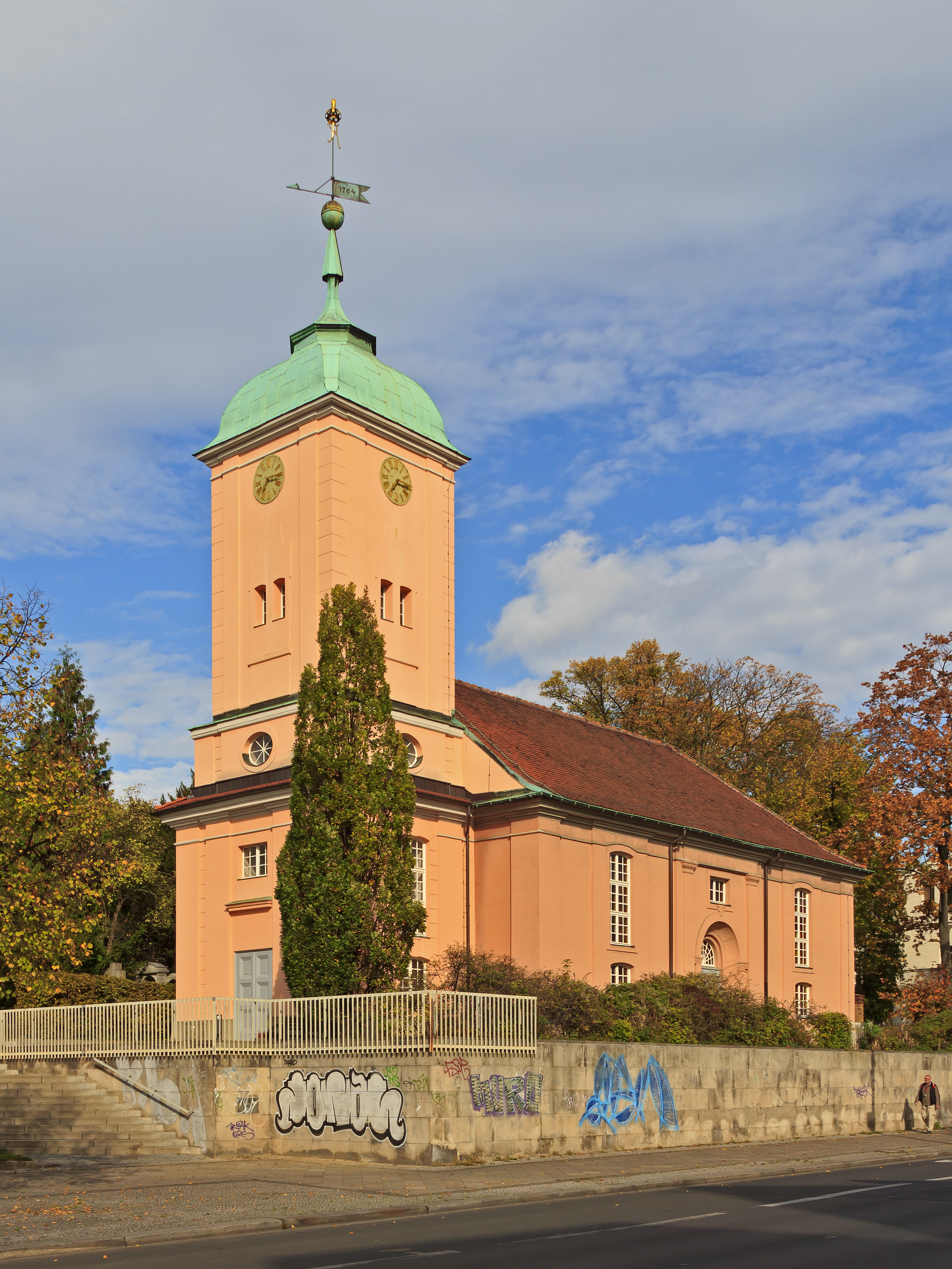 Village church Schöneberg (Dorfkirche Schöneberg) in Berlin, Germany